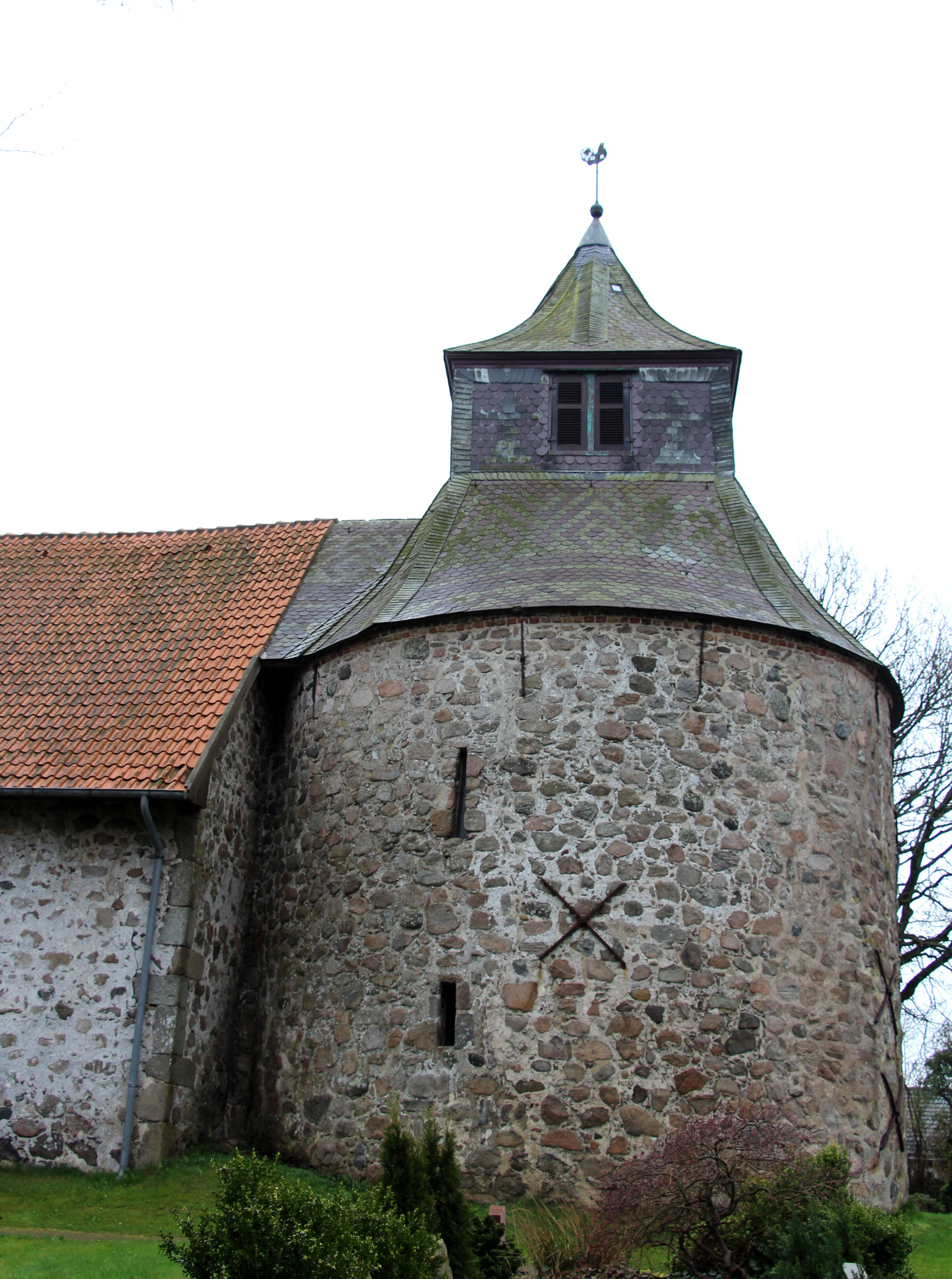 Tower of the St. Georg-Church in Oeversee